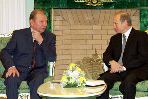 THE KREMLIN, MOSCOW. President Vladimir Putin and Ukrainian President Leonid Kuchma.